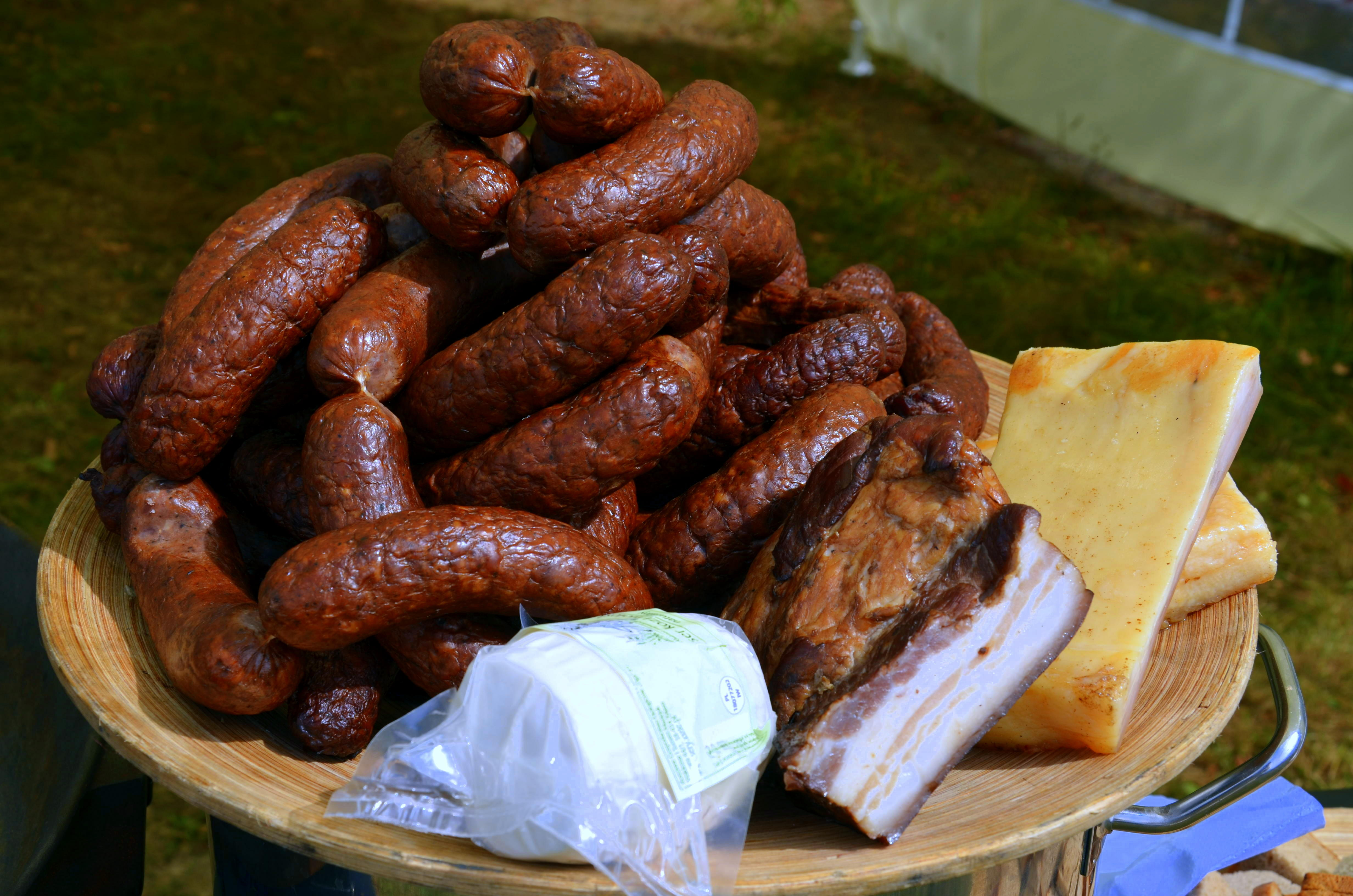 Cuisine of Subcarpathia